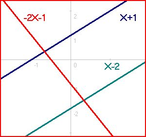 a graph of a system of 3 equations